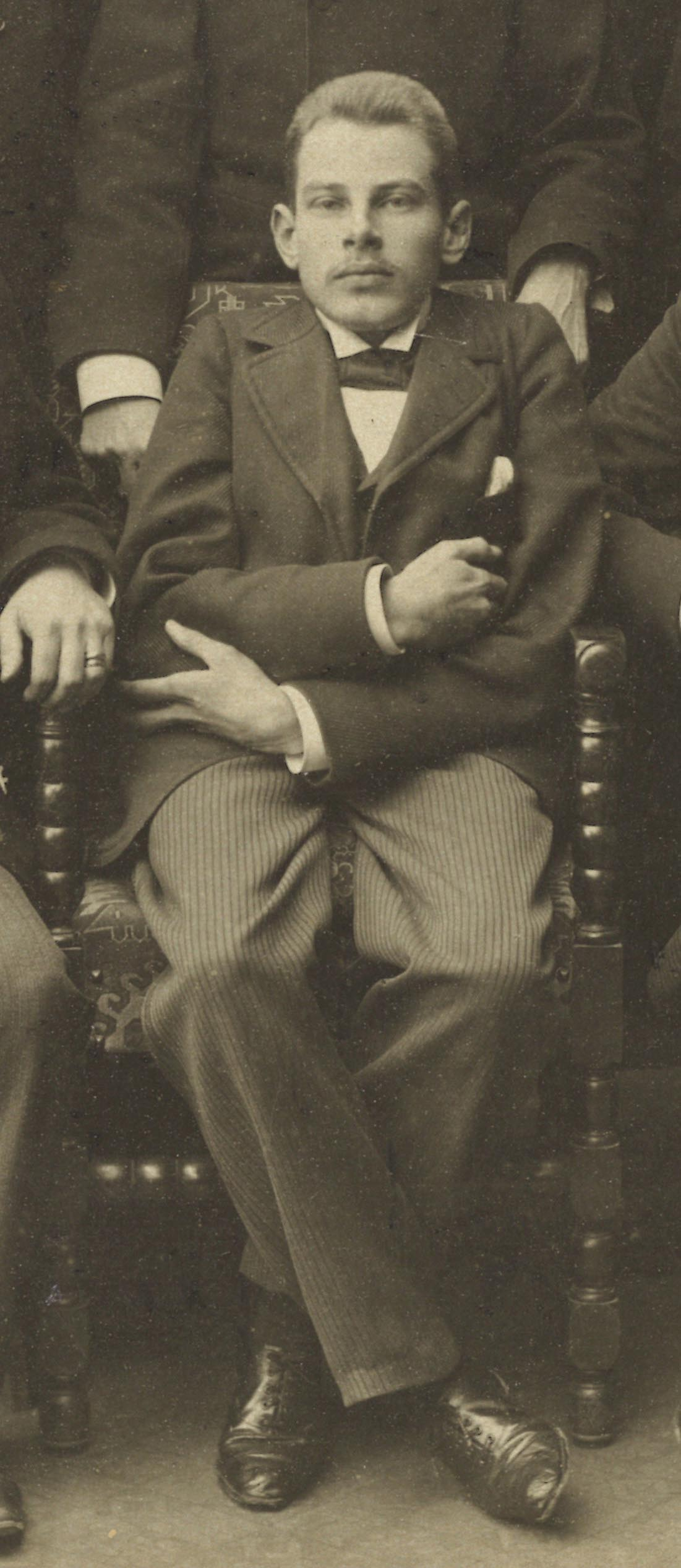 Herman Söderbergh (1871-1945), Swedish school leader.